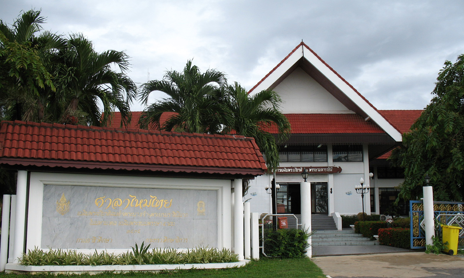 The Silk Cottage in Amphoe Chonnabot, Khon Kaen Province. It's the place of the permanent exhibition for Thai Silk of Chonnabot and neighboring districts.